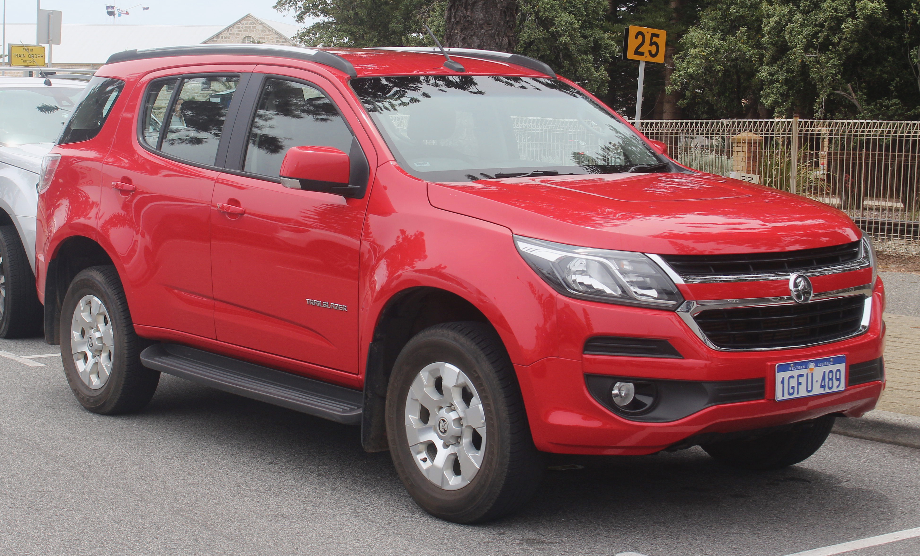 2017 Holden TrailBlazer (RG MY17) LT 4x4 wagon. Photographed in Fremantle, Western Australia, Australia.